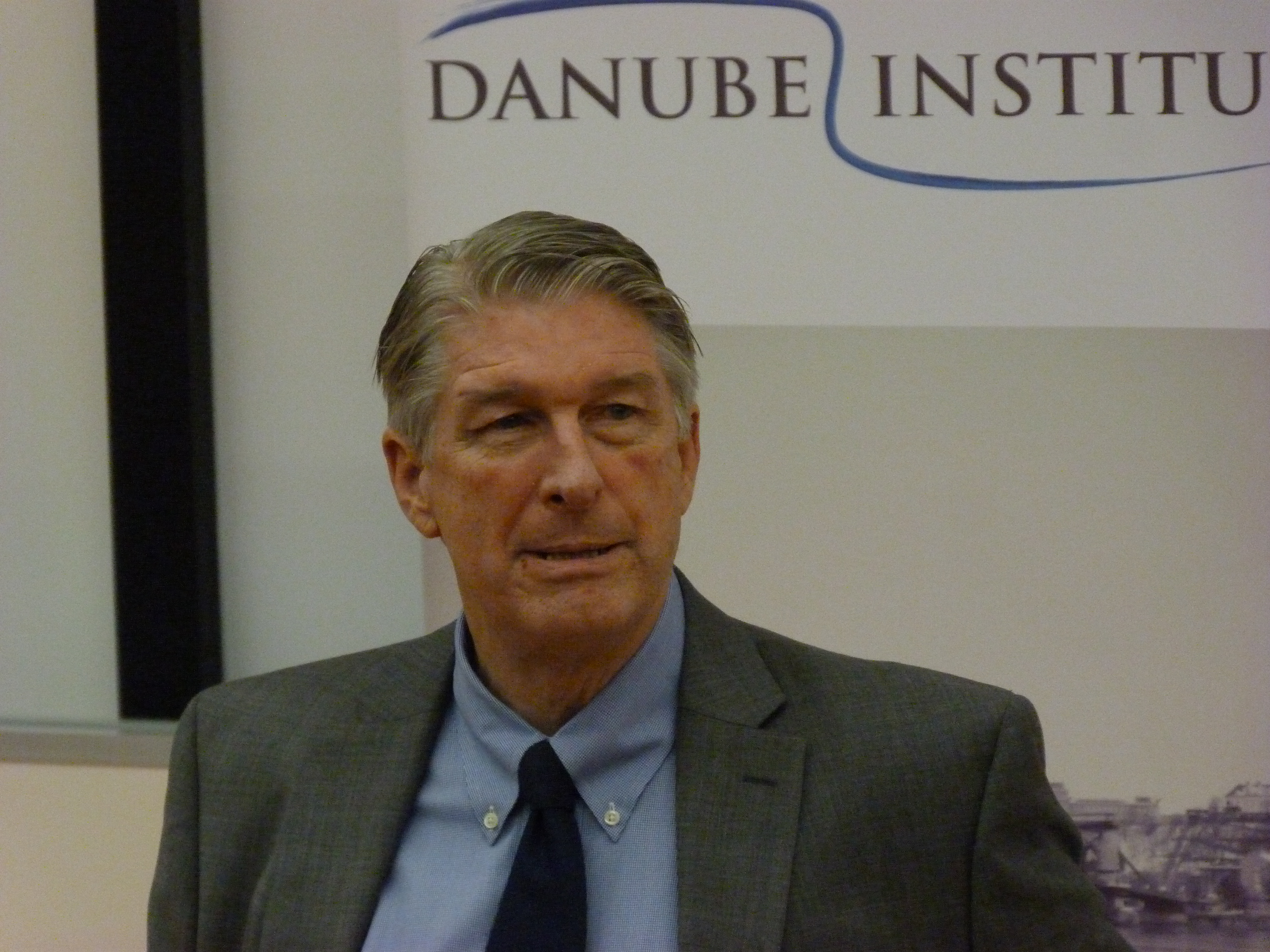 Clark S. Judge delivered his lecture titled "US Midterm elections: Is the Republican Party in its Death Throes ? " at Corvinus University, Budapest, Hungary. Judge had been the speech writer of Ronald Reagen. He works for the Wall Street Journal, New York Times, Financial Times etc. ©© Derzsi Elekes Andor, Budapest 2014, You are authorised to use these photos and vids under Creative Commons – even for commercial, for profit purposes. Photos must be attributed to Derzsi Elekes Andor. All of the photos and vids in the Metapolisz DVD line are under Creative Commons and can be used even for commercial – for profit – purposes. Recommended Citation Derzsi Elekes Andor: Metapolisz DVD line